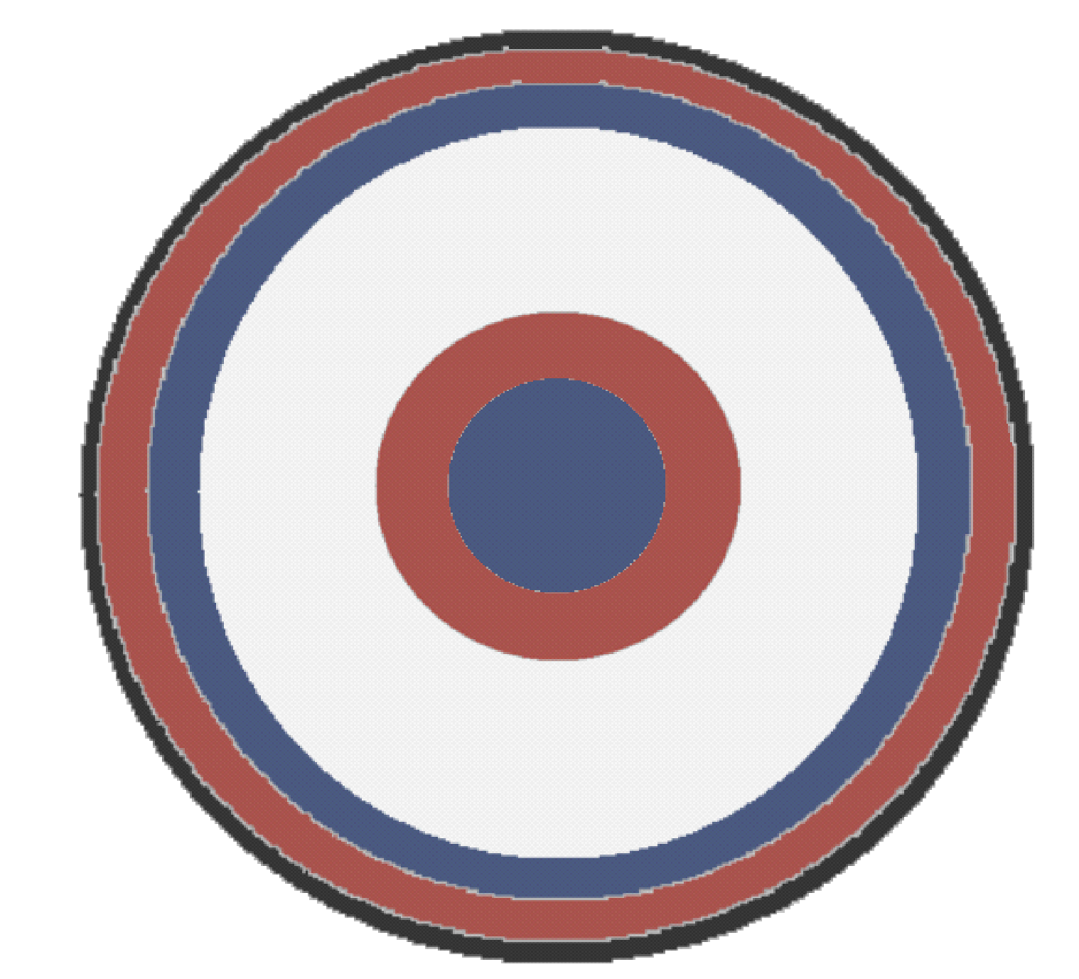 Shield pattern o.t. Salii Gallicani, a unit of auxilia palatina listed in the Magister Peditum's infantry roster; it is assigned to the "Comes" Hispaniarum under the name Salii iuniores Gallicani, Notitia Dignitatum, 5th century (Bodleian Manuscript.